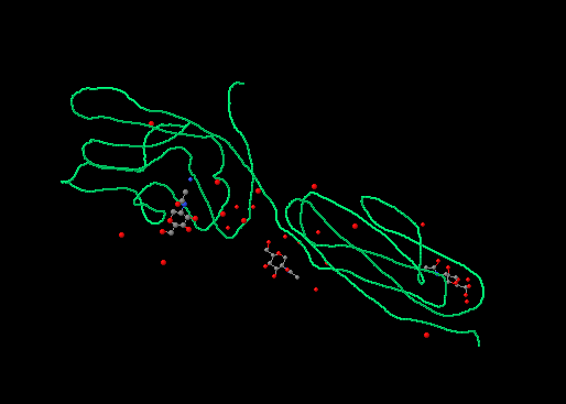 Extracytoplasmic segment of the Uman CD2 antigen, in green the protein, at the upper left the adesion domain, where is clearly recognizable the Ig structure with the three loops. There are also shown the N-ac-GLU residues where is developed a poliantennary glication based on D-man and Glu. On the right side is the proximal ig domain.